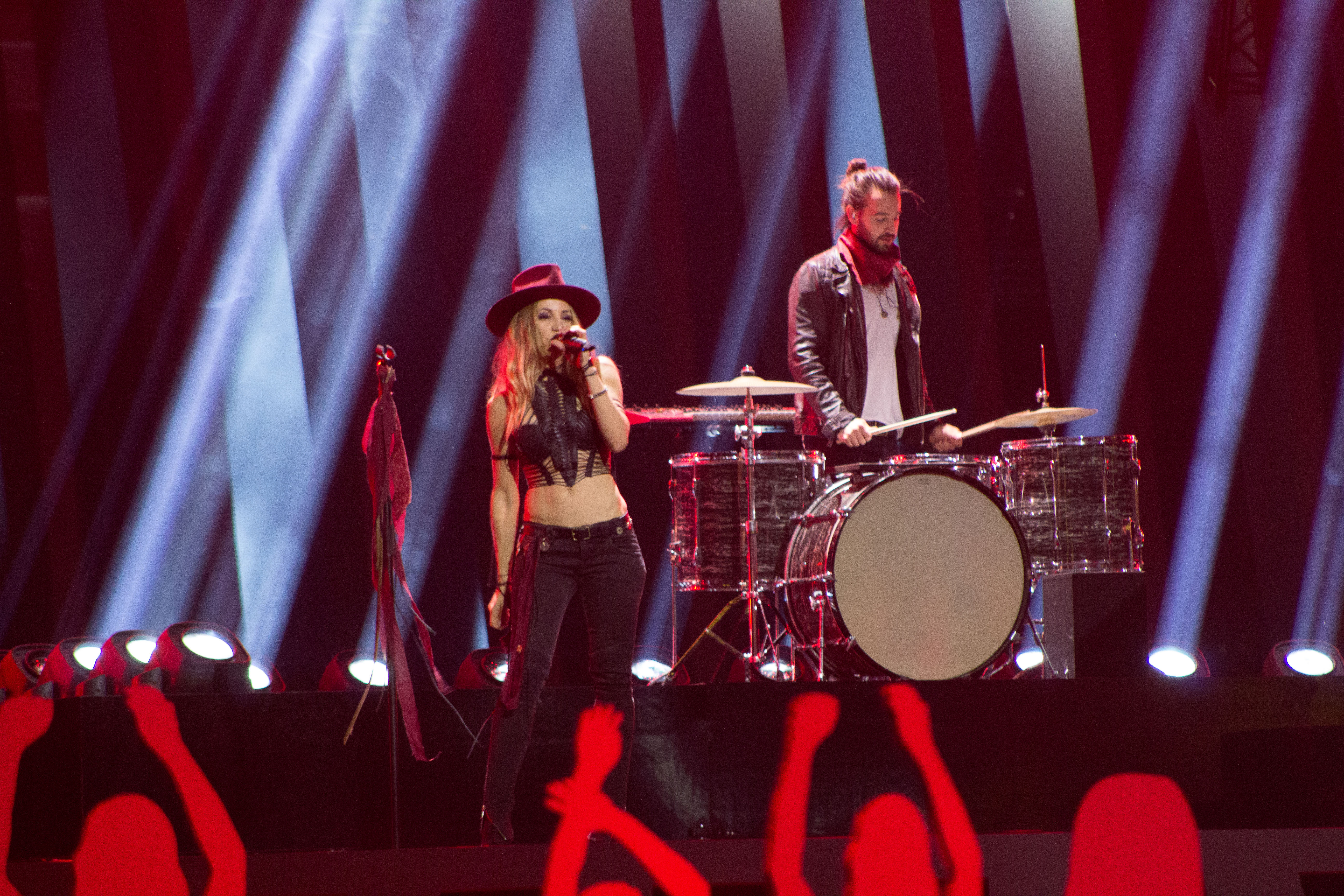 Zibbz performing at Eurovision 2018